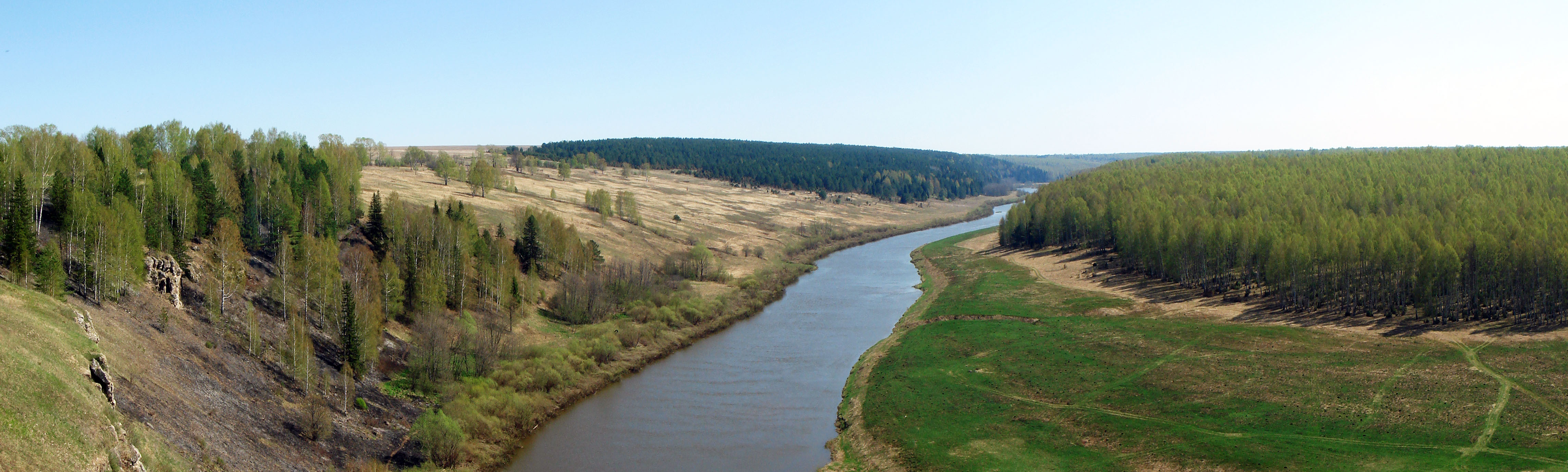 River Nemda, Kirovskaya Oblast.